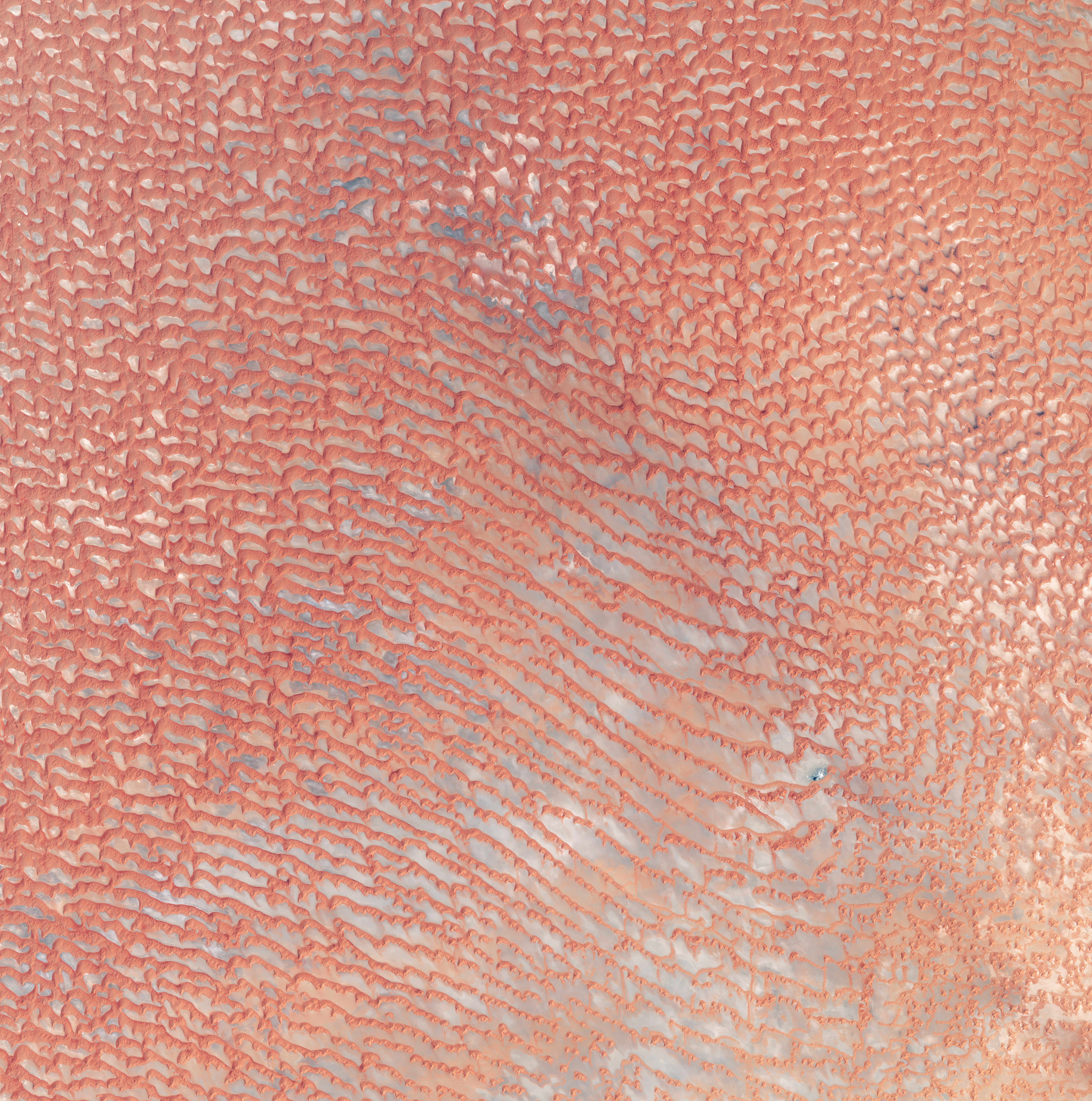 The Arabian Peninsula’s Empty Quarter, known as Rub’ al Khali, is the world’s largest sand sea, holding about half as much sand as the Sahara Desert. The Empty Quarter covers 583,000 square kilometers (225,000 square miles), and stretches over parts of Saudi Arabia, Yemen, Oman, and the United Arab Emirates. The area shown resides in southeastern Saudi Arabia, midway between the United Arab Emirates to the north and Oman in the south.